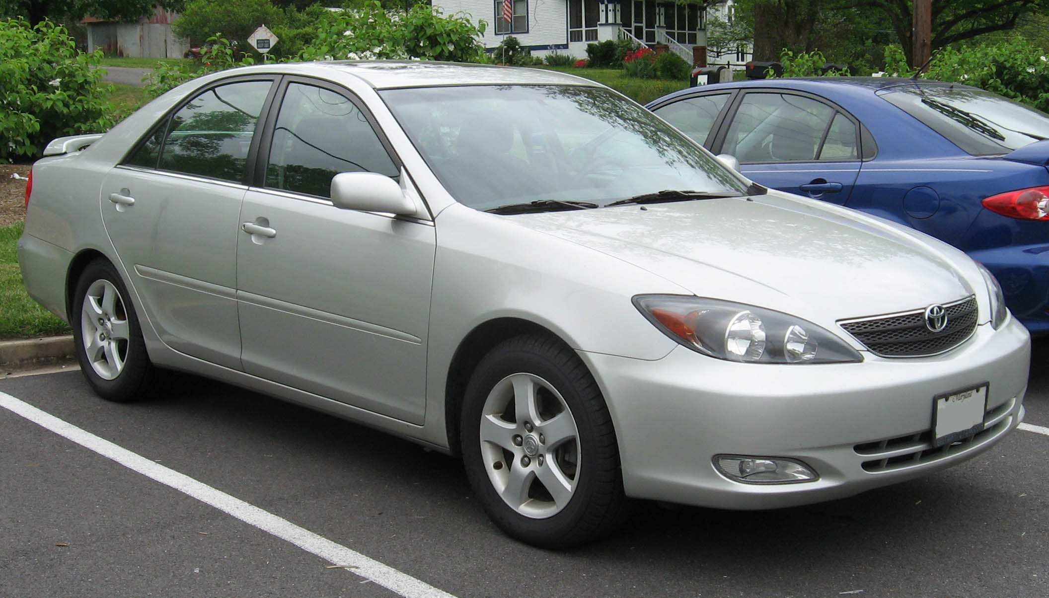 2002-2004 Toyota Camry photographed in USA.